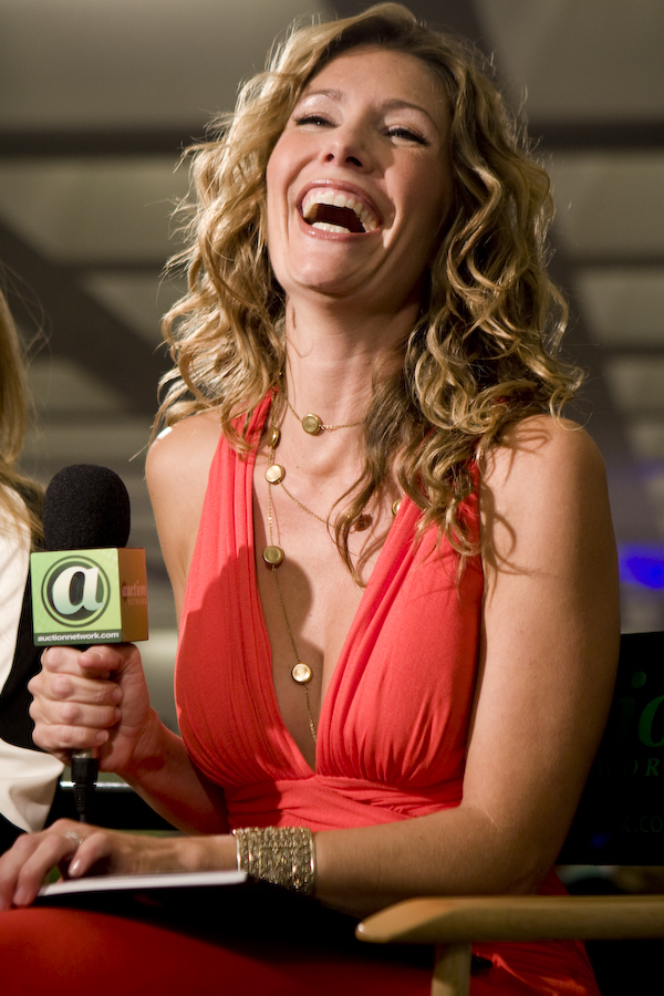 Tava Smiley, auction network host